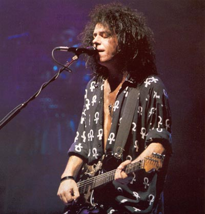 Steve Lukather on his guitar on the Toto Past to Present Tour in 1990